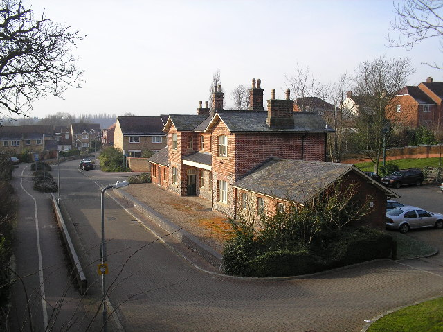 The Old Station in St Albans. This is the old station from the St Albans to Hatfield Railway. It is now offices and a cycle and footpath replace the tracks. Photographed from the road bridge on London Road.It was called 'St Albans' Station, later renamed 'St Albans London Road' in 1950. It was first opened 16th October 1865, closed to passengers 1st October 1951 and finally the freight traffic ceased on 5th October 1964.